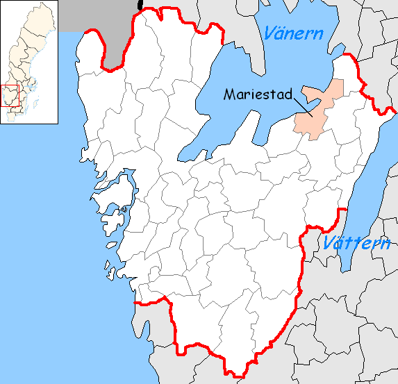 Mariestad Municipality in Västra Götaland County Designed by me. Mere outlines are a PD source from